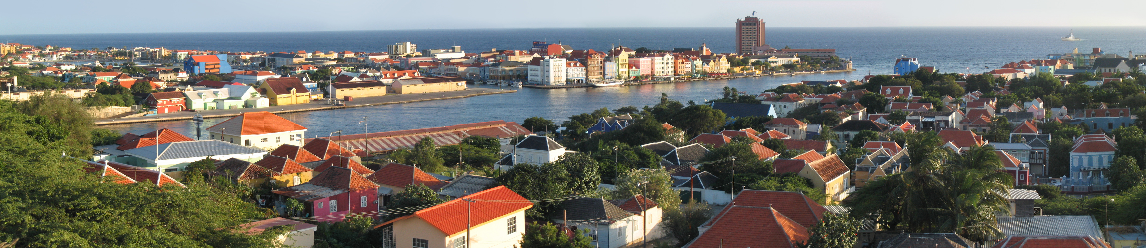 Panorama of the center of Willemstad, Curacao. (I took this picture and stiched it together. Link to the picture